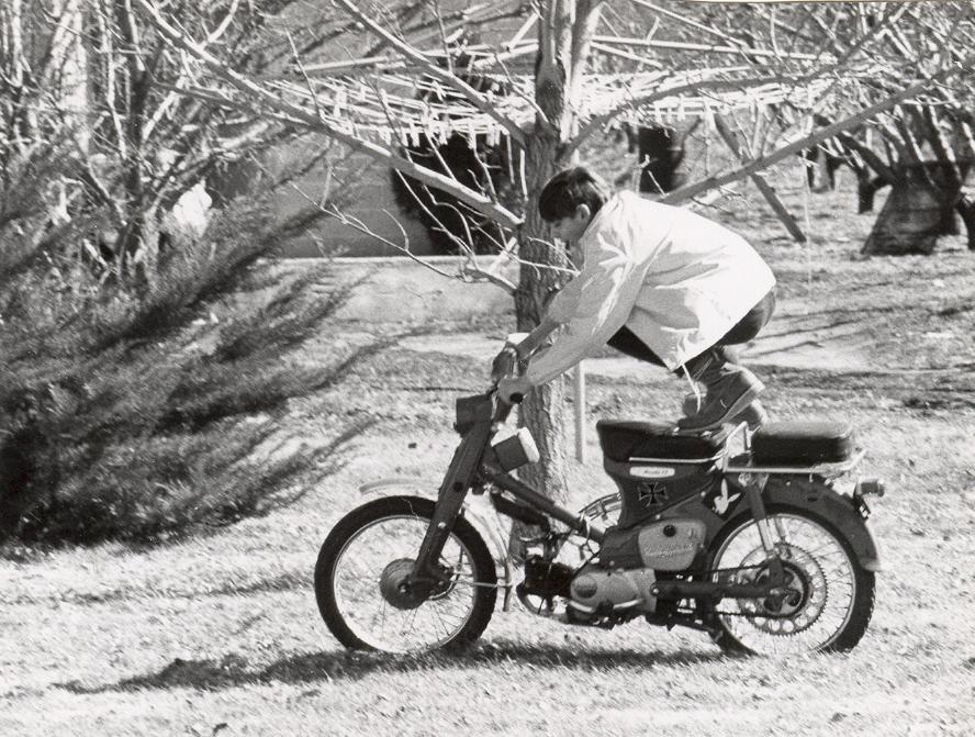 Honda Trail 55. Picture taken in 1965. Note both the optional rear seat and luggage rack installed simultaneously.